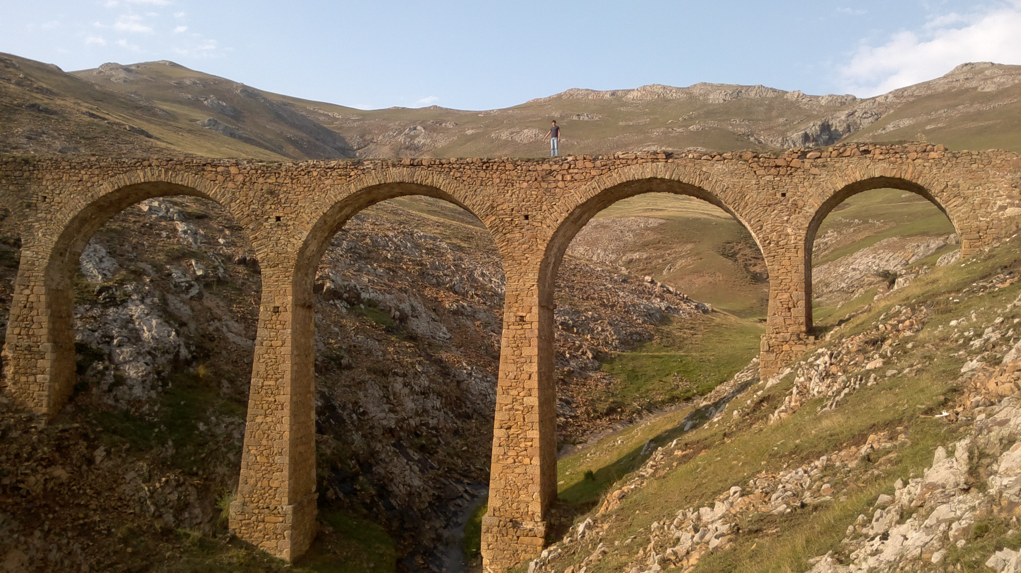 railway bridge of the 19th century